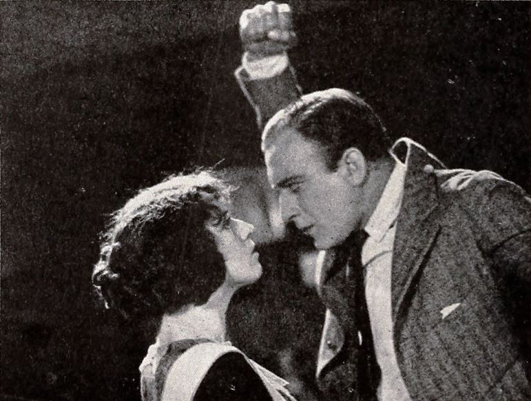 Still from the American drama film The Flaming Hour (1922) with Helen Ferguson and Frank Mayo, on page 386 of the January 20, 1923 Exhibitor's Trade Review.